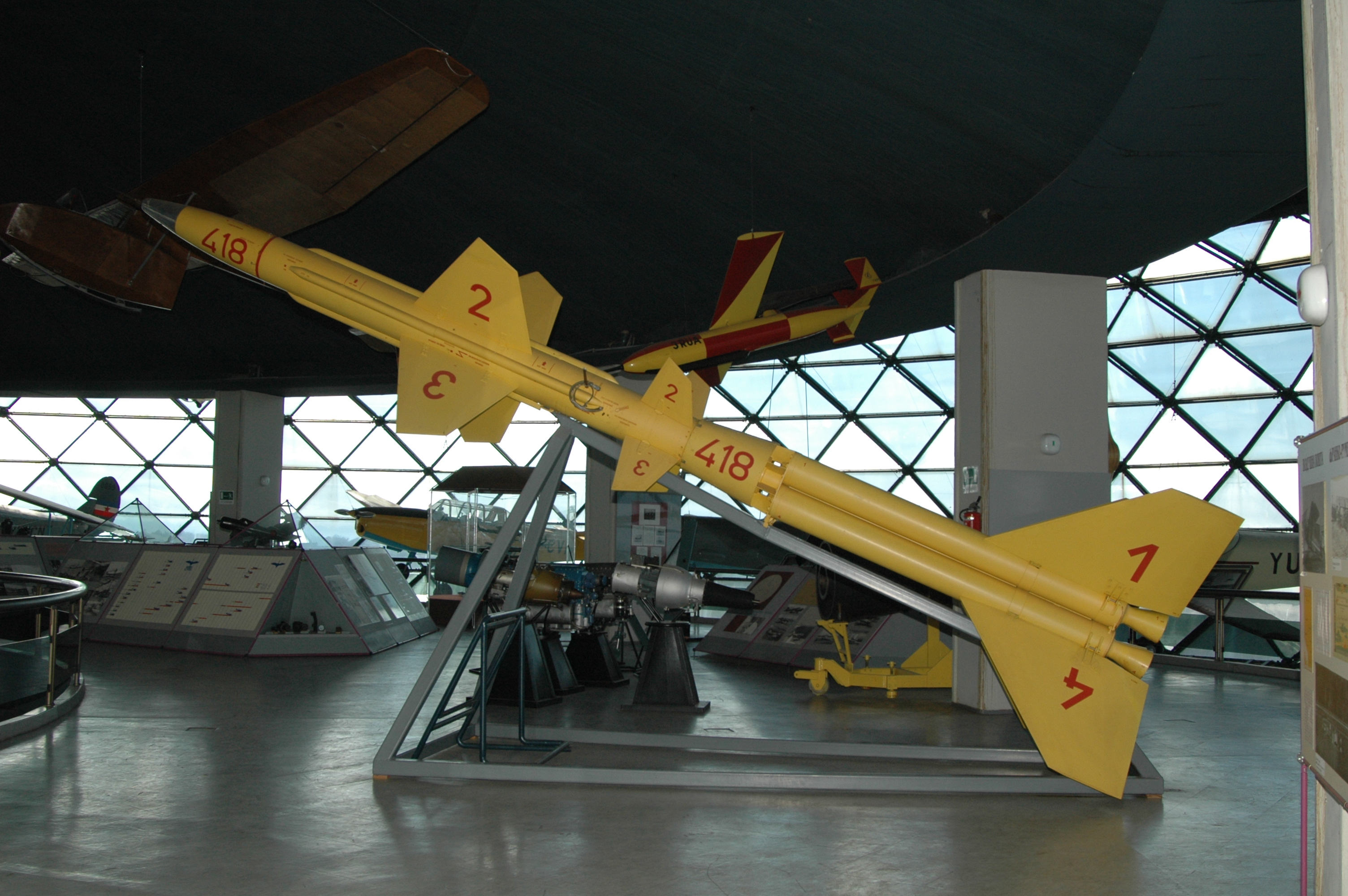 Vulkan